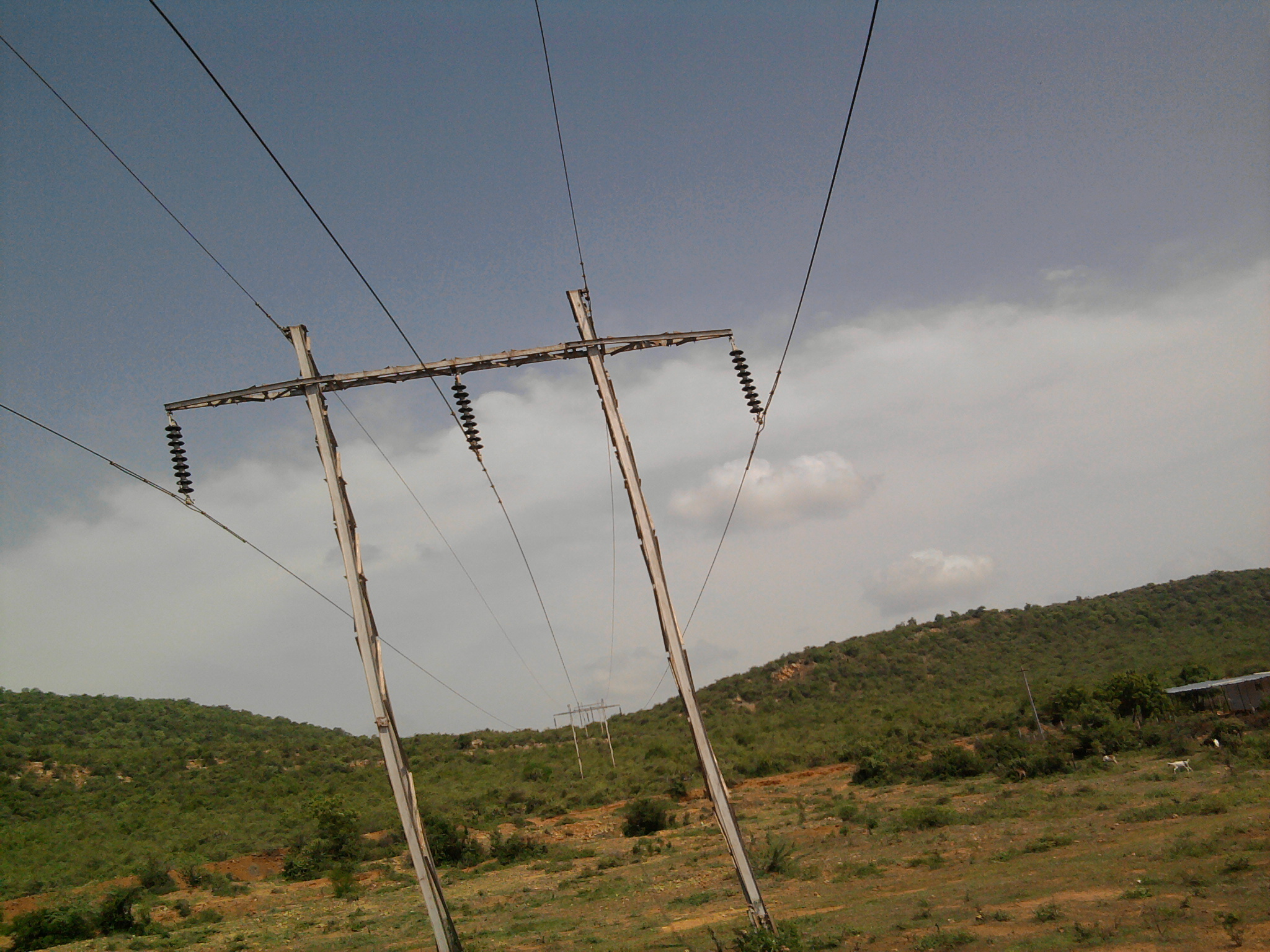 Electric Wires, H-frame pylons at Nellore (dt), Andhra Pradesh, India.